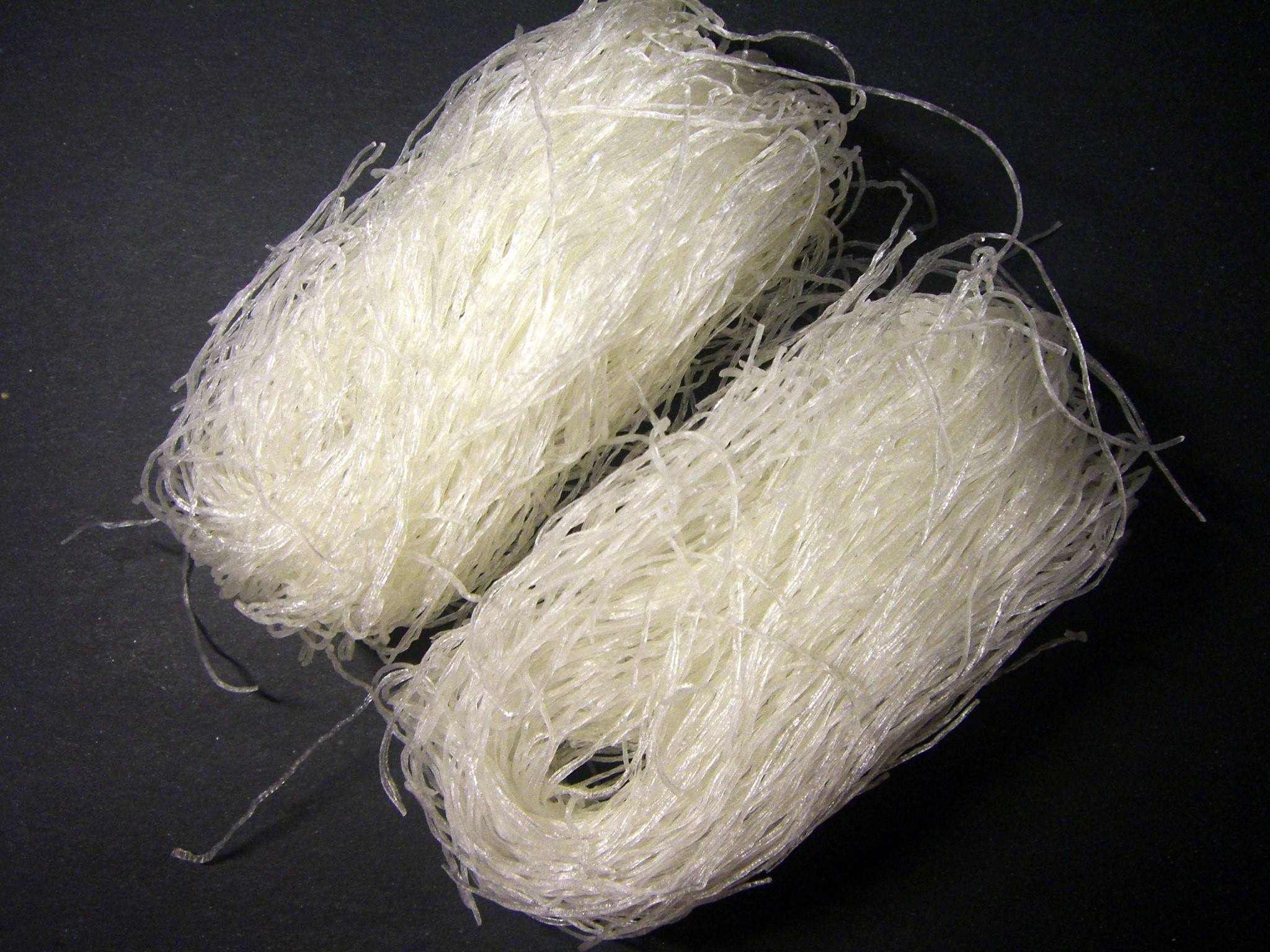 Dongfen (冬粉). Vermicelli made from mung bean starch. Seen uncooked. Own work.